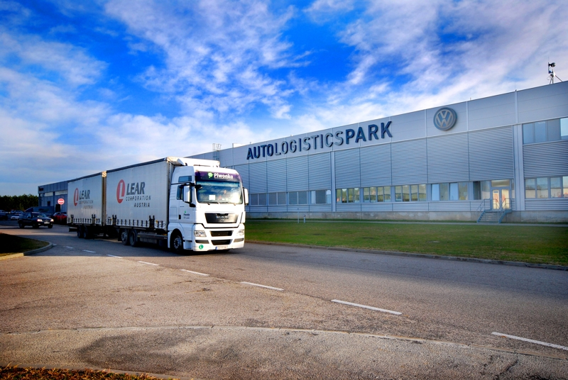 Logistics Park Lozorno